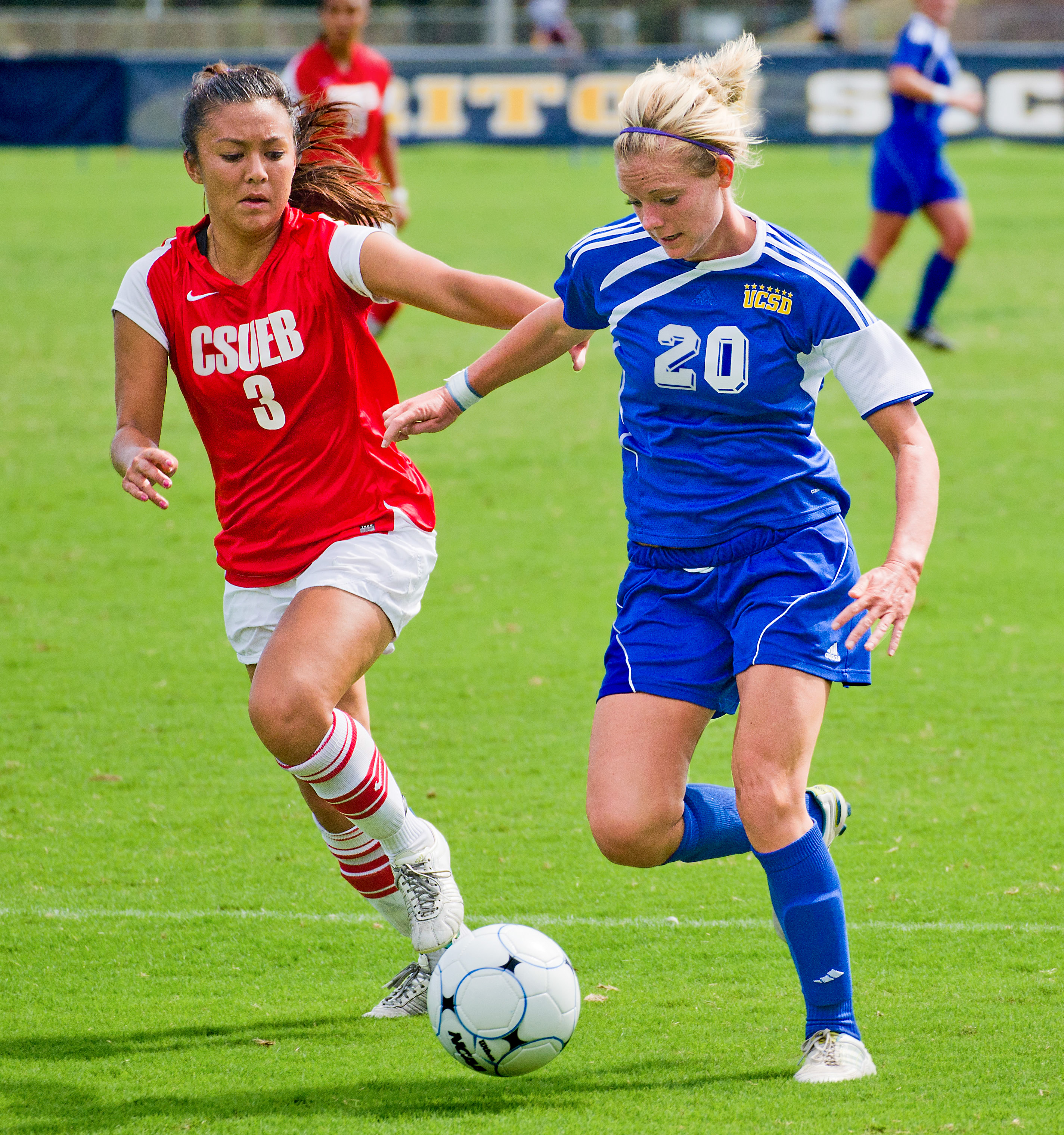 Sara Yamasaki (3, Cal State East Bay Pioneers) v Alexa Enlow (20, University of California, San Diego)